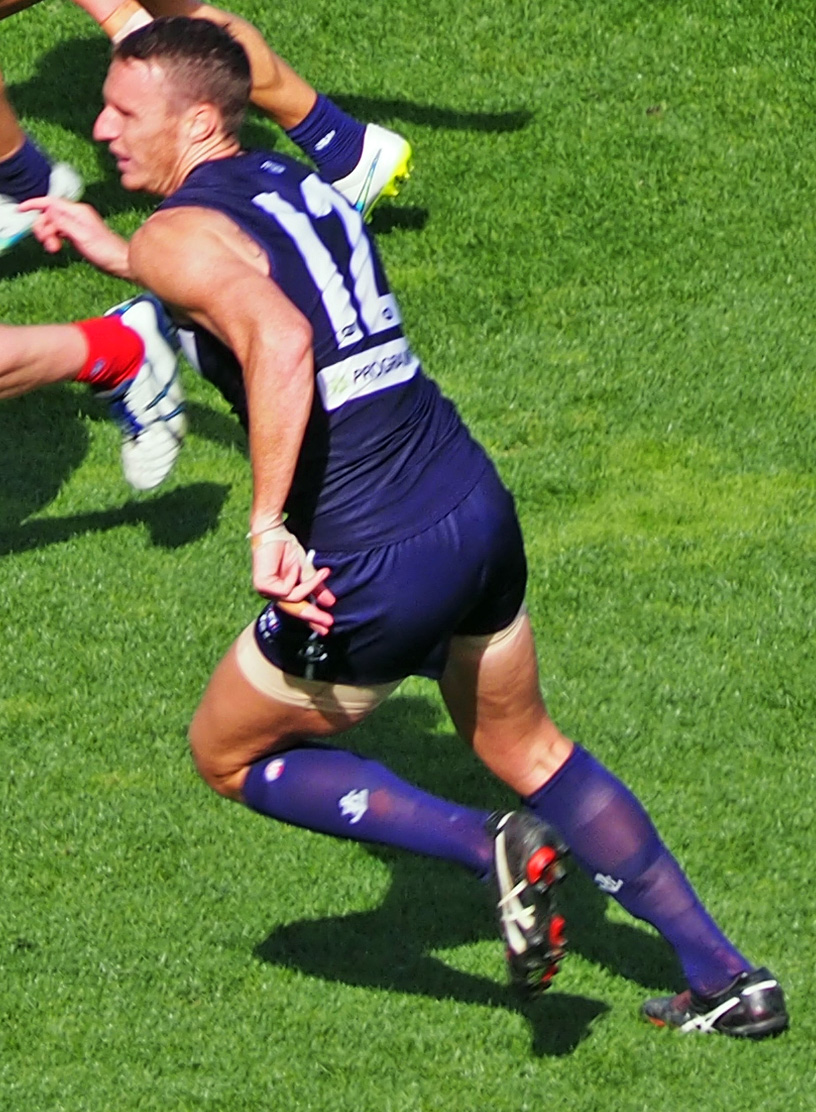 Jonathon Griffin playing for Fremantle Football Club at Patersons Stadium, Round 22, 30 August 2015